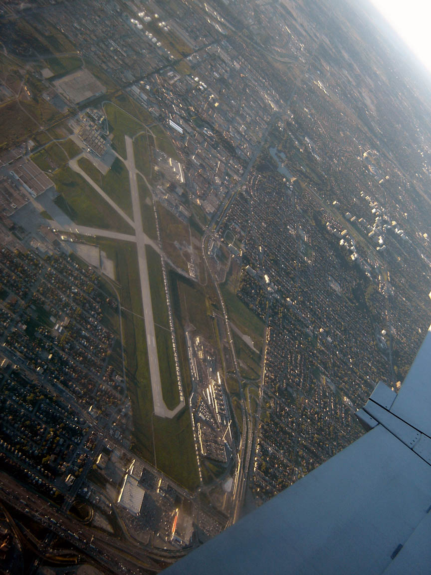 An aerial view of the runway of the Toronto/Downsview Airport at Downsview Park. September 23rd 2005